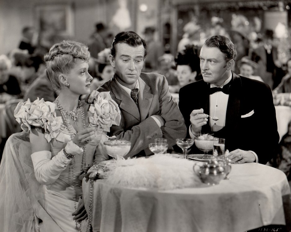 L. to R. : Martha Scott, John Wayne & Albert Dekker in In Old Oklahoma aka War of the Wildcats - cropped screenshot